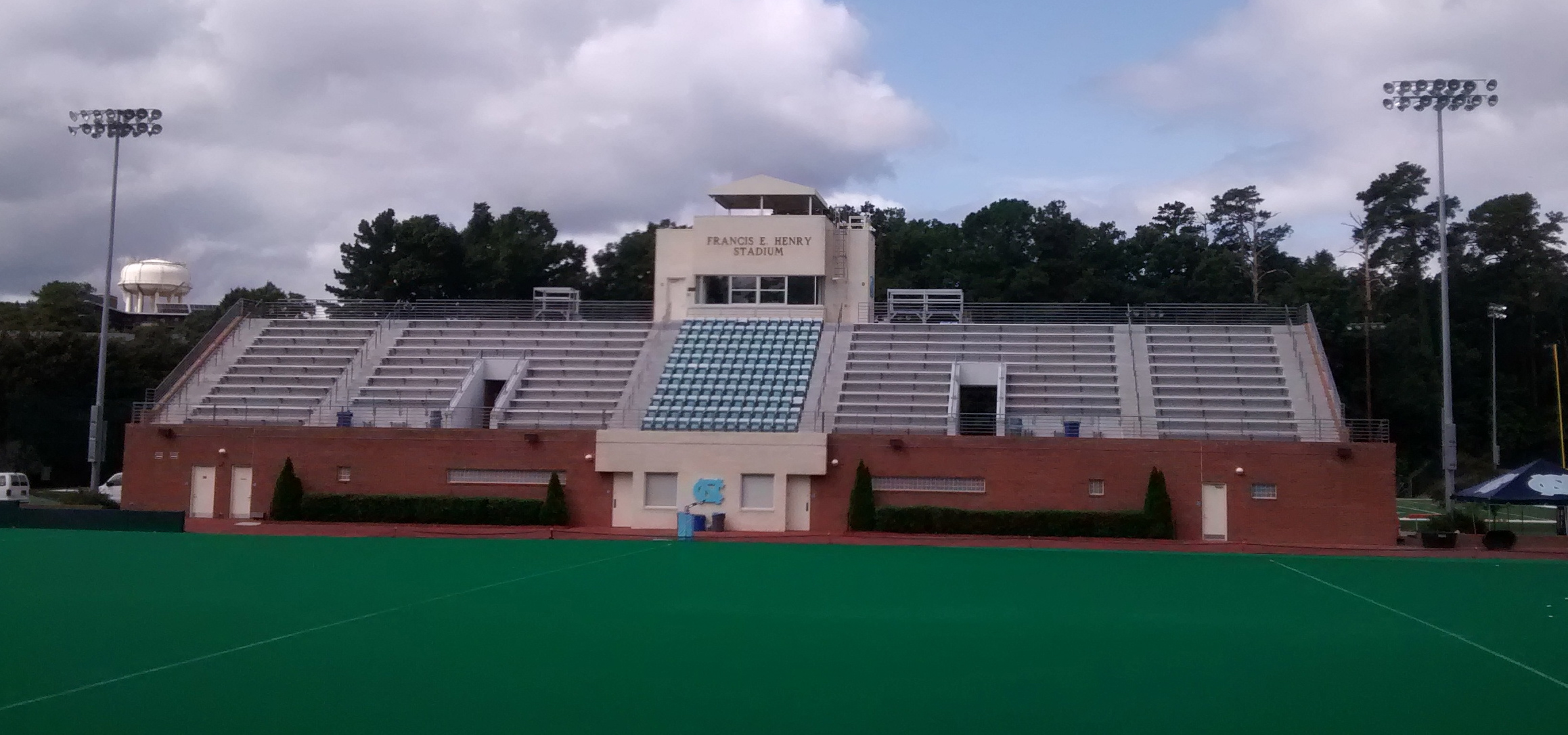 Henry Stadium at the University of North Carolina at Chapel Hill.